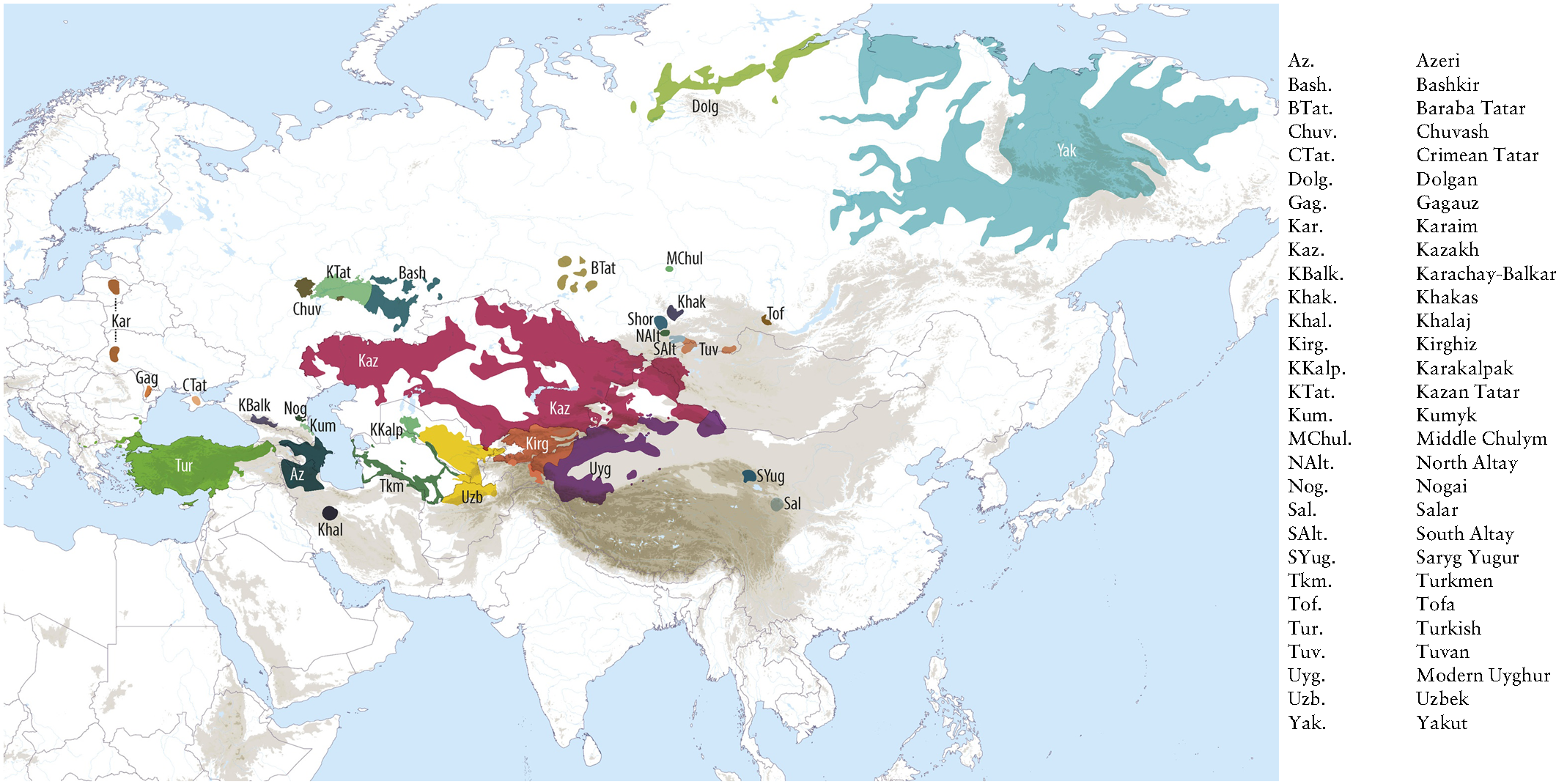 The distribution of the Turkic languages.